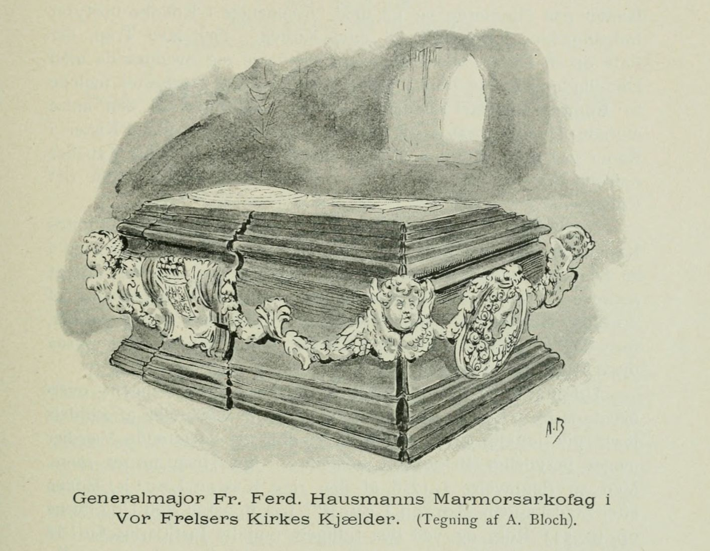 Frederik Ferdinand Hausmann`s marble sarcophagi in the basement of Oslo Cathredal. Drawing by Andreas Bloch. Illustration from the book Gamle Christiania-Billeder (1893) by Alf Collett.